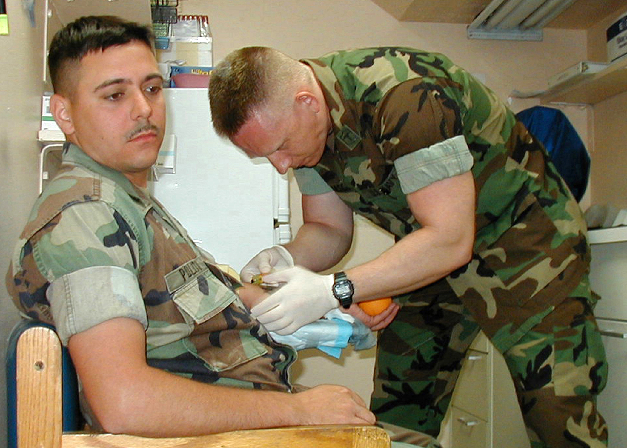 Rota, Spain (Apr. 18, 2002) -- Hospital Corpsman 2nd Class Robert Blaasch draws blood from a patient as part of his duties as an independent duty Corpsman. U.S. Navy photo by Photographer’s Mate 2nd Class Amy Celentano. (RELEASED)